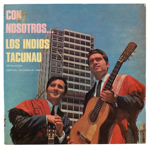 Los Indios Tacunau (Néstor Eduardo "Cacho" Tacunau & Nelson Abel Tacunau). Folk & Tango Group. Argentina